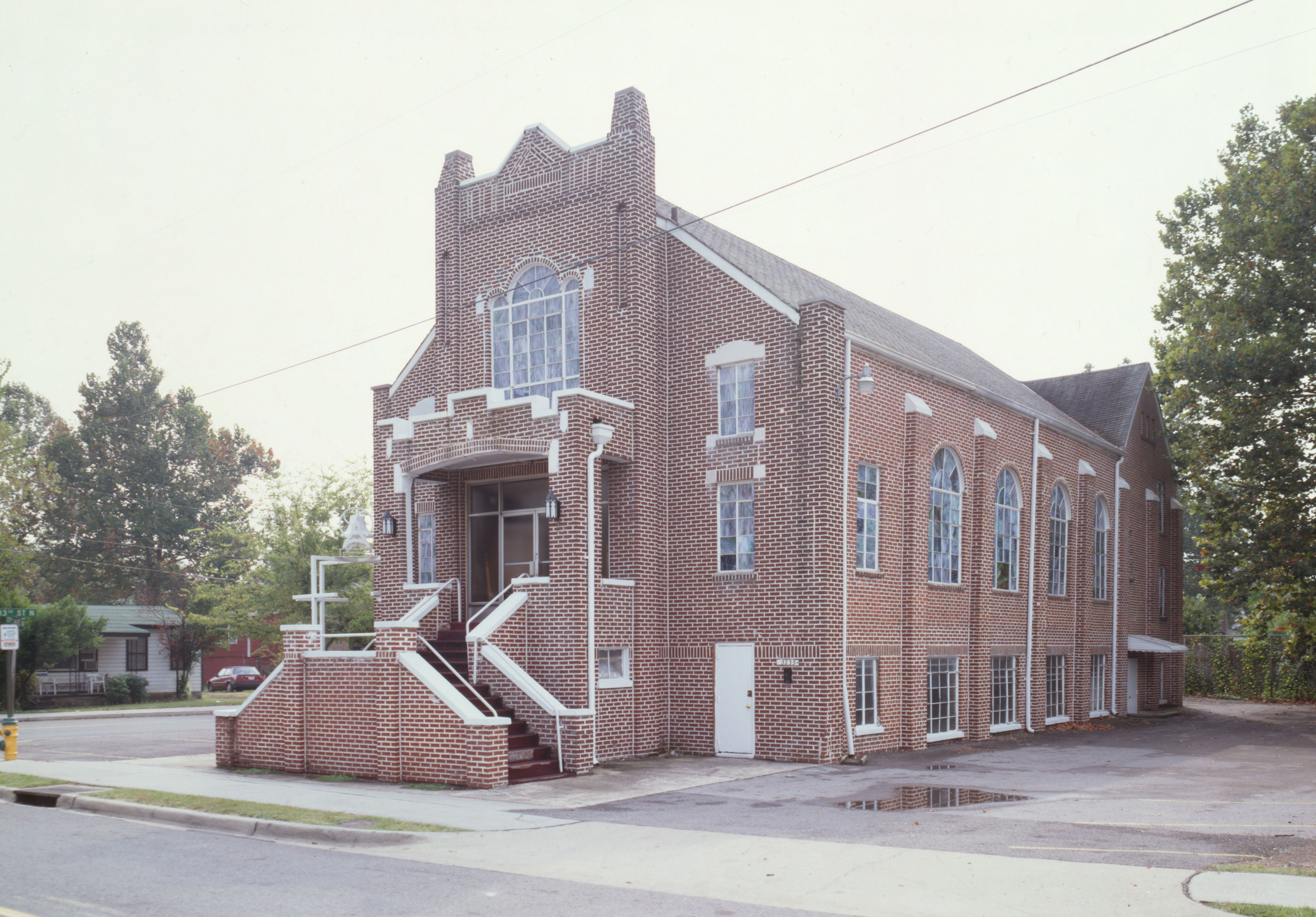 Bethel Baptist Church, 3233 Twenty-ninth Avenue, North, Birmingham, Jefferson County, AL. EXTERIOR VIEW, FRONT (NORTH) FACADE.